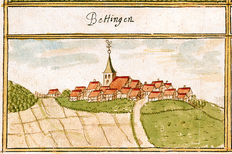 View of Börtlingen [dubious, see talk page] from the forest register books created by Andreas Kieser